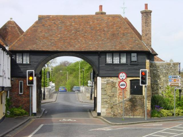 Barbican gate, Sandwich, Kent. One of two remaining gates in the town wall, the Barbican at one time served as a toll gate for the bridge beyond.